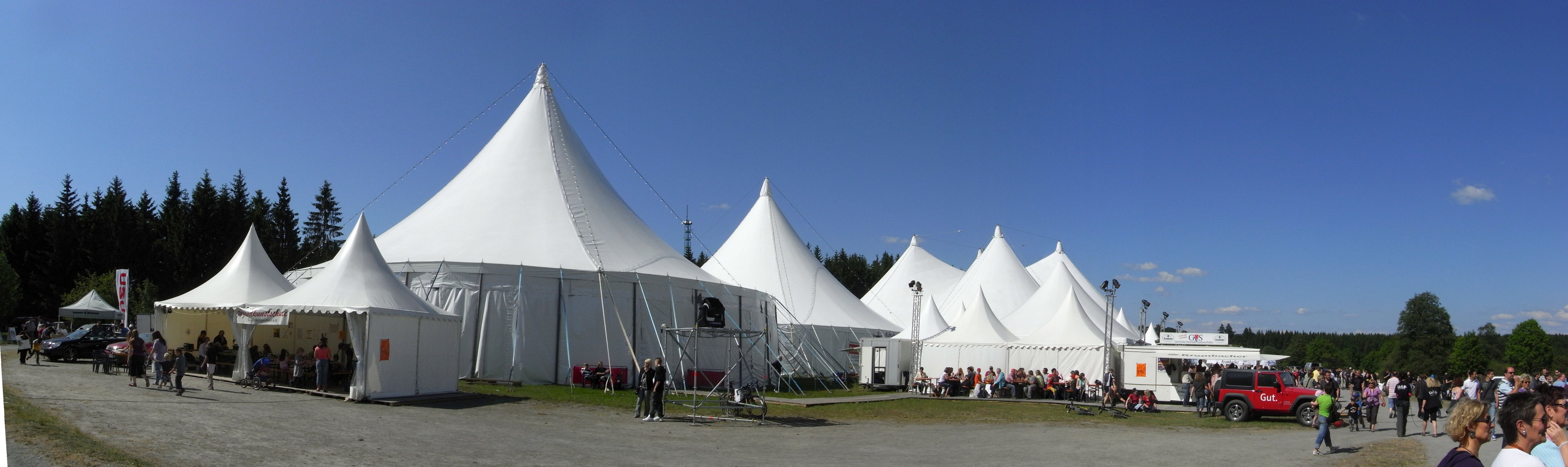 "Kultur Pur" in Hilchenbach-Lützel, Germany